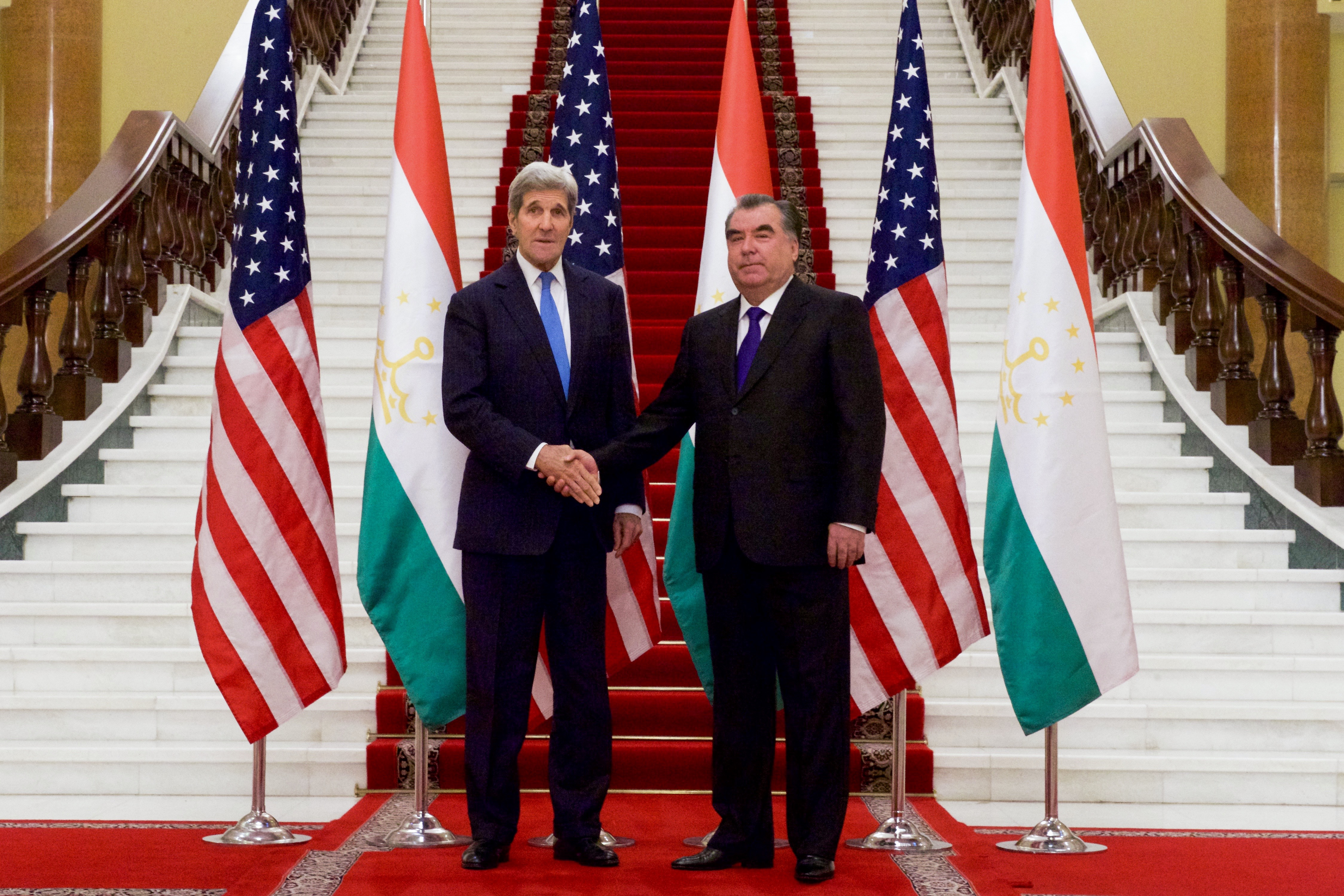 U.S. Secretary of State John Kerry stands with Tajikistan President Emomail Rahmon on November 3, 2015, after he arrived at the Palace of Nations in Dushanbe, Tajikistan, for a bilateral meeting.